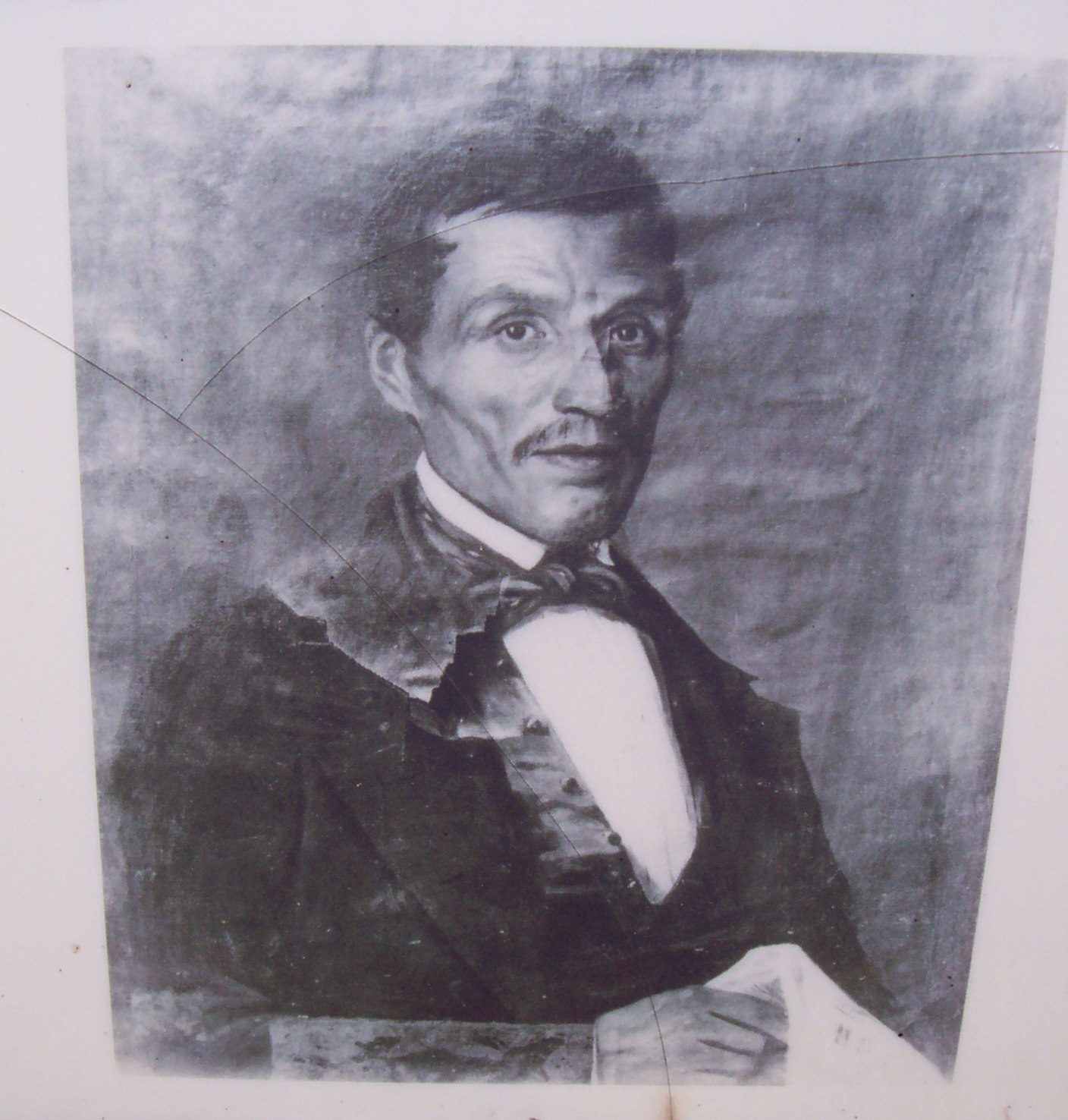 John Wannuaucon Quinney image. Since he died in 1855 the author has to be dead for a very long time.